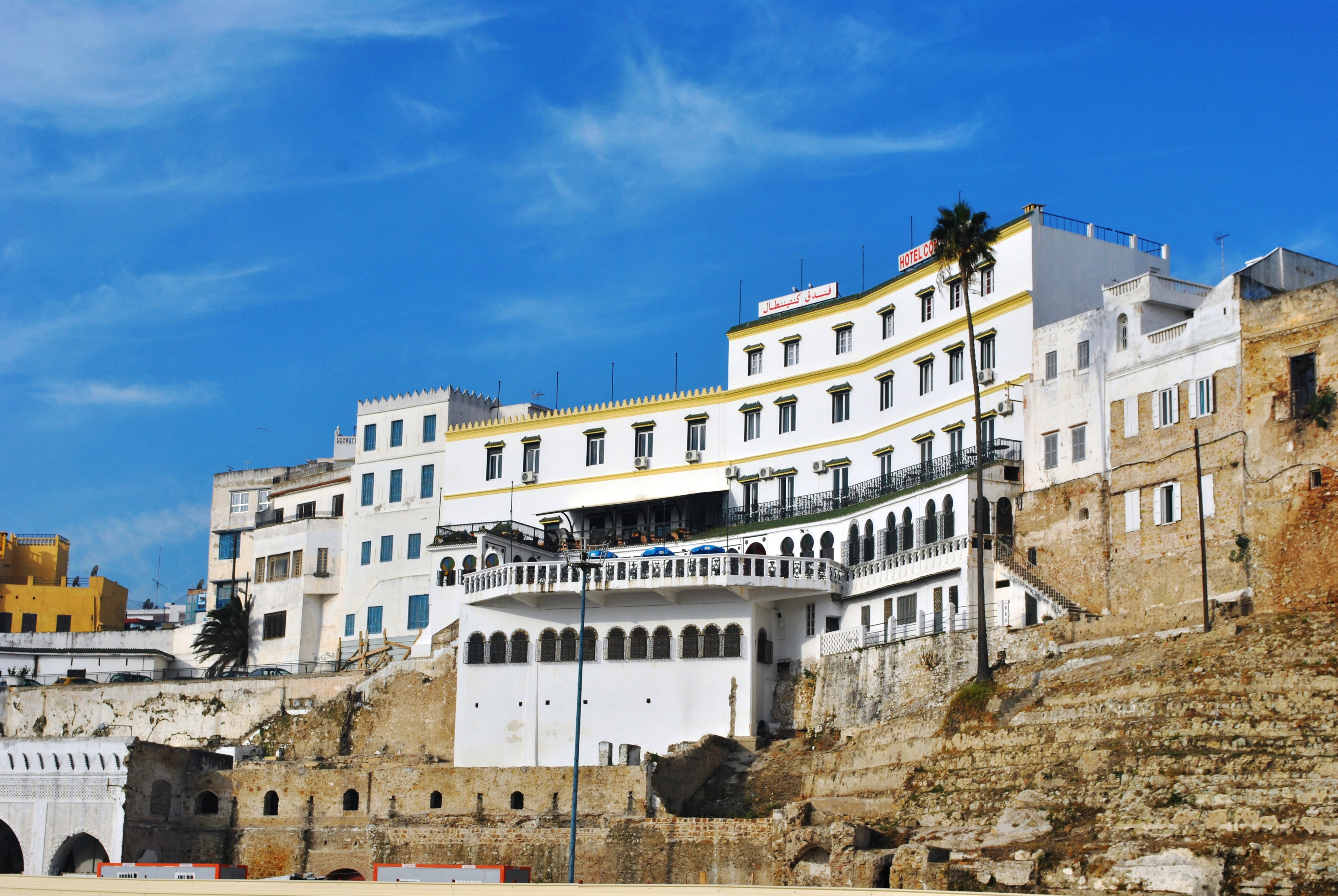 Image originally published in Queer Places: Retracing the Steps of LGBTQ people around the World Authored by Elisa Rolle